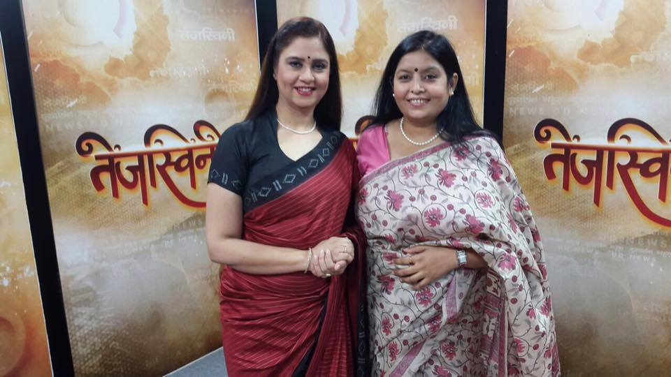 Dr. Rashmi Tiwari chosen as one of the Tejaswinis by DD News with Neelam Sharma